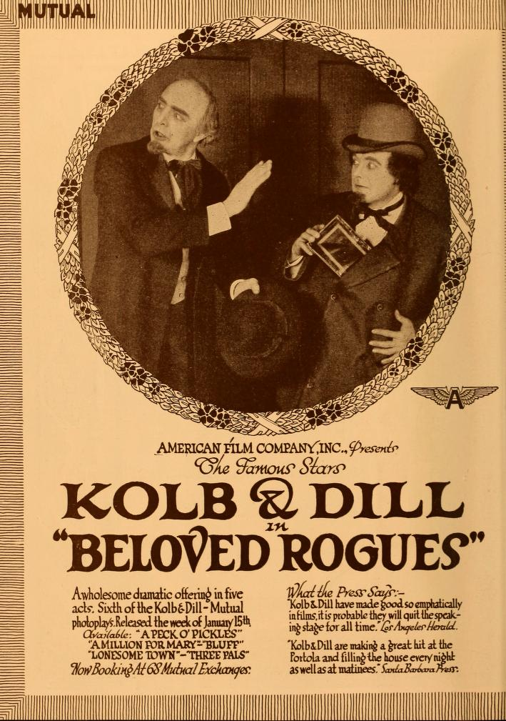 Advertisement in Moving Picture World for the American film Beloved Rogues (1917).